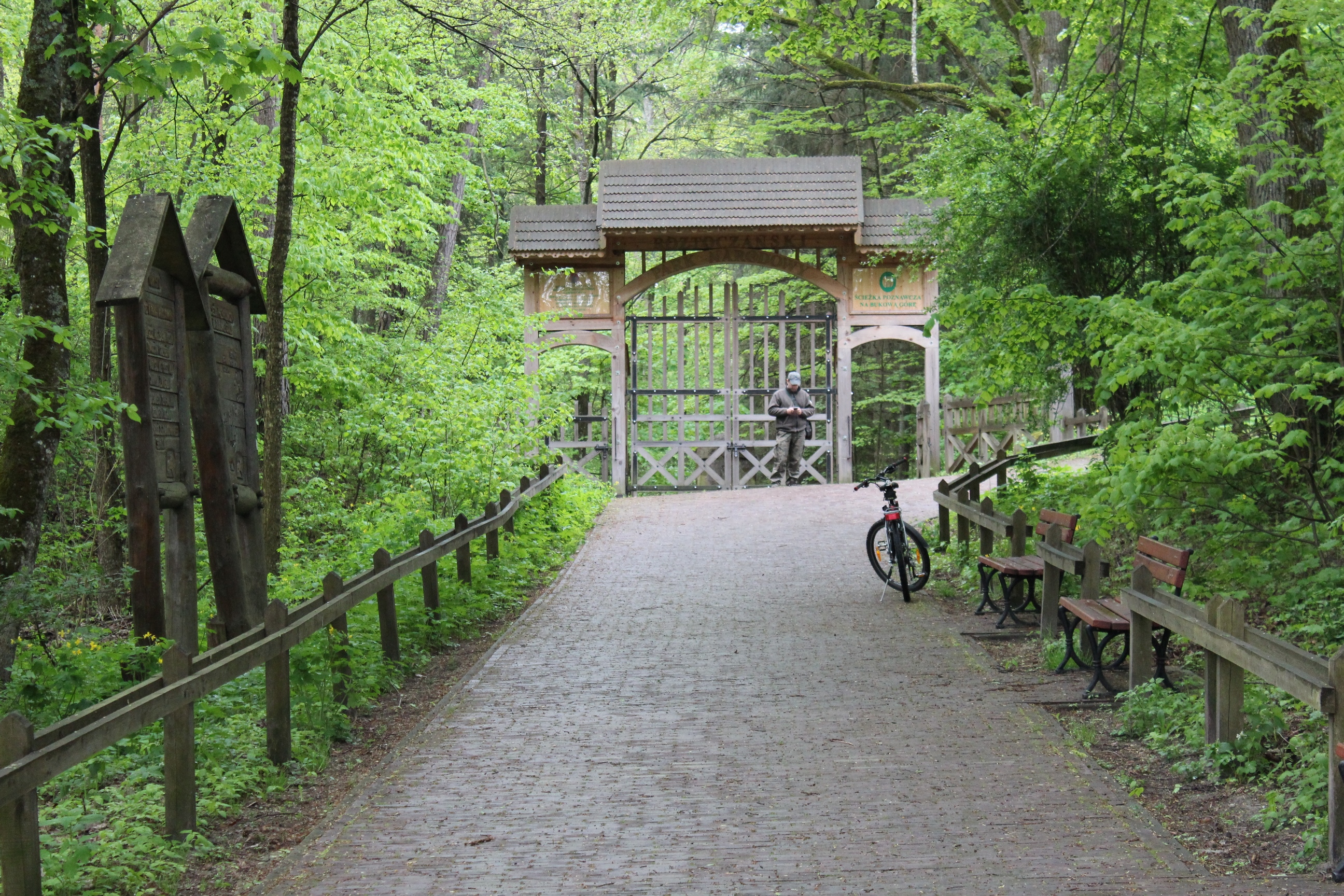 Roztocze National Park